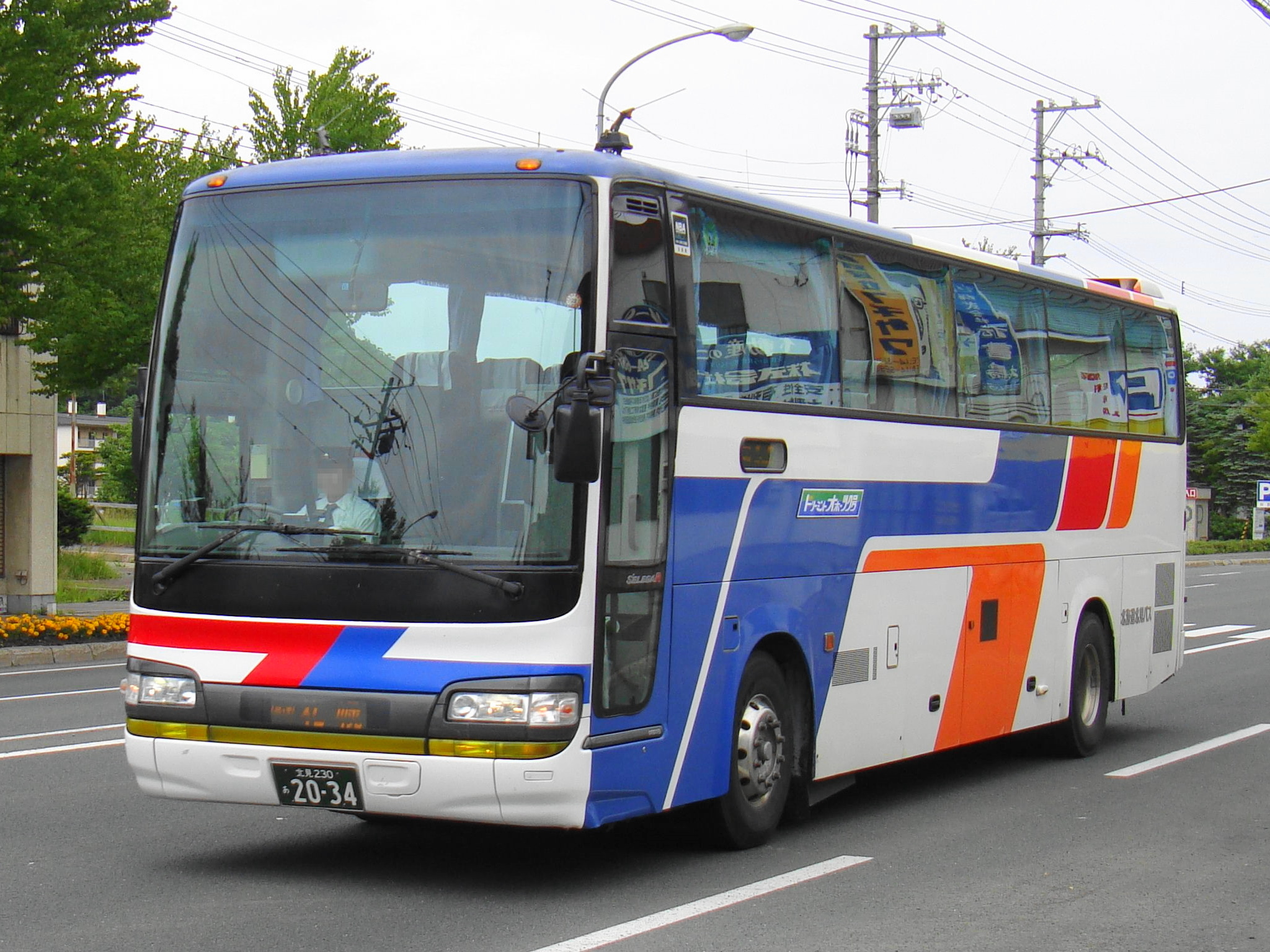 "Dreamint Okhotsk gō" Abashiri to Sapporo